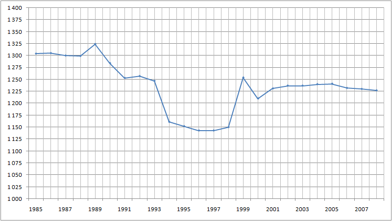 This diagram shows changes in population of Vestmanna since 1985 for 2008. It's made in Microsoft Excel 2007 program.